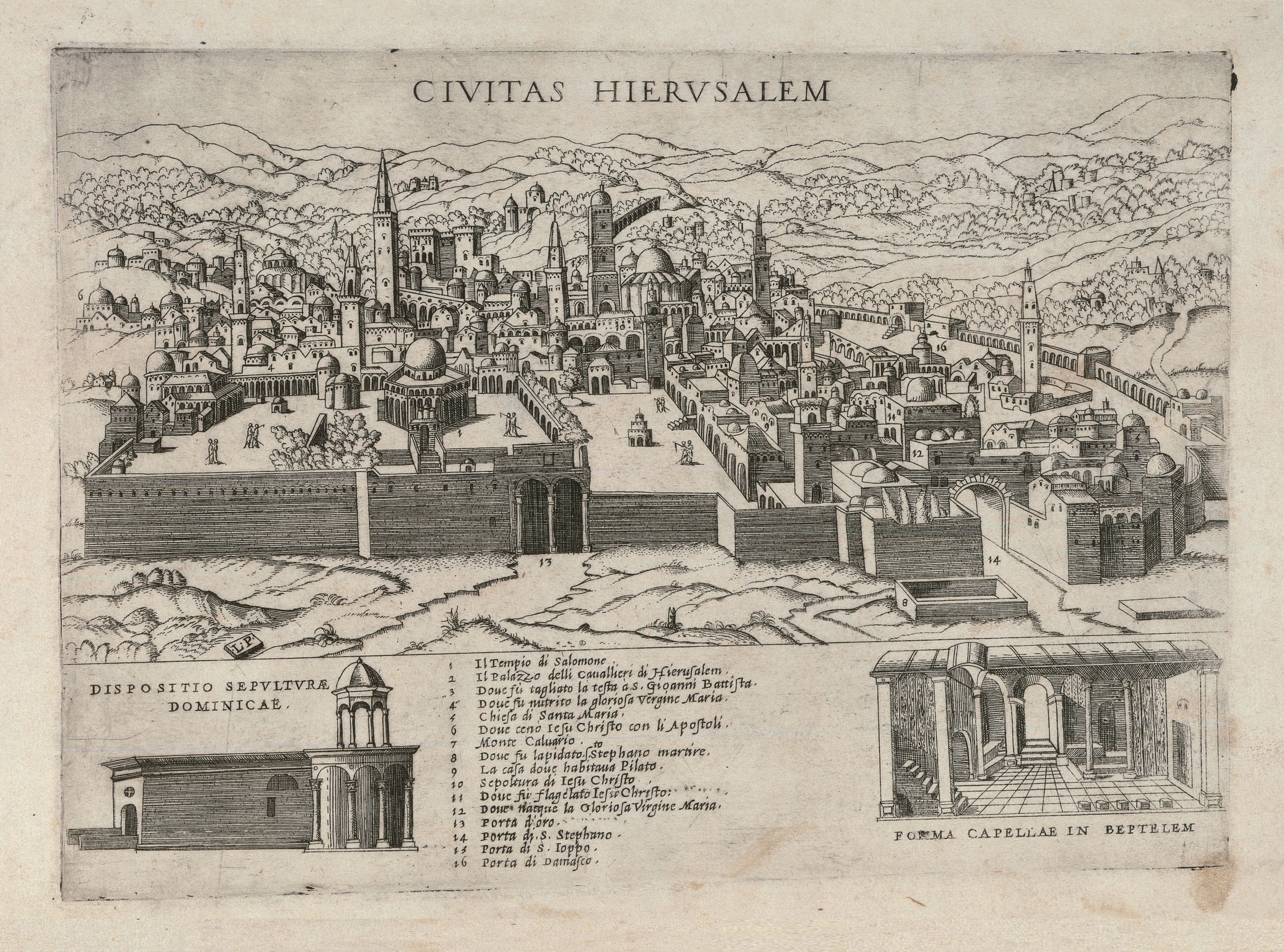 Modern Jerusalem by Ligorio. At the bottom representation of the Church of the Holy Sepulchre and the Chapel in Bethlehem. 16th century.